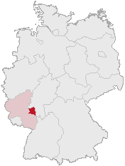 Location of Rheinessen in Germany